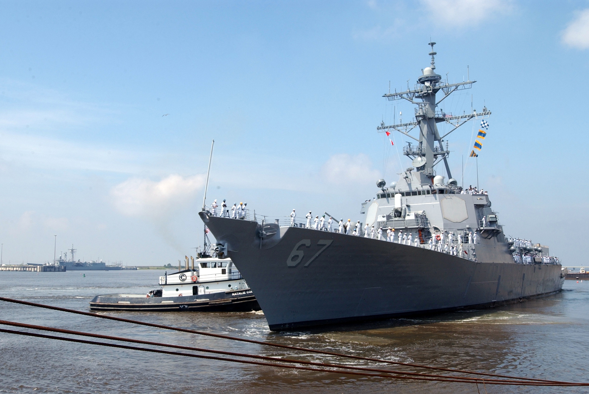 Northrop Grumman Ship Systems (NGSS) Pascagoula, MS. (Apr. 19, 2002) -- The U.S. Navy guided missile destroyer USS Cole (DDG 67) gets underway after completing extensive repairs to the ship’s hull and interior spaces. Visible as she pulls away from the pier is her newly restored portside hull and superstructure. The Cole has been in Pascagoula for the past 14 months undergoing repairs after a terrorist bomb blew a hole in her port side while refueling in the port city of Aden, Yemen, killing 17 sailors. Cole will return to her homeport of Norfolk, Virginia. U.S. Navy photo by Photographer’s Mate 1st Class Tina M. Ackerman. (RELEASED)